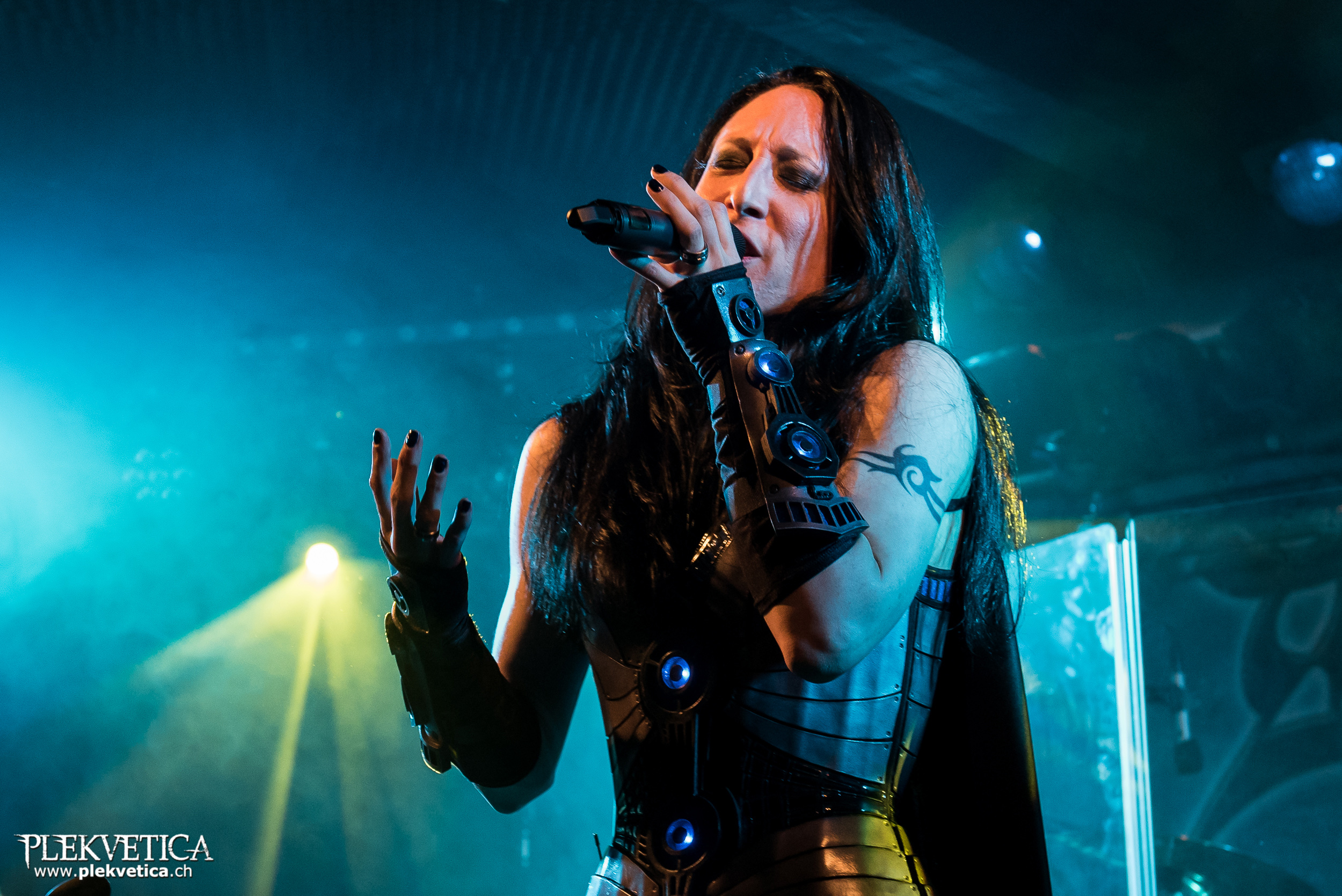 DEEP SUN, Debora Lavagnolo, Vocal, live at Böröm, 2019